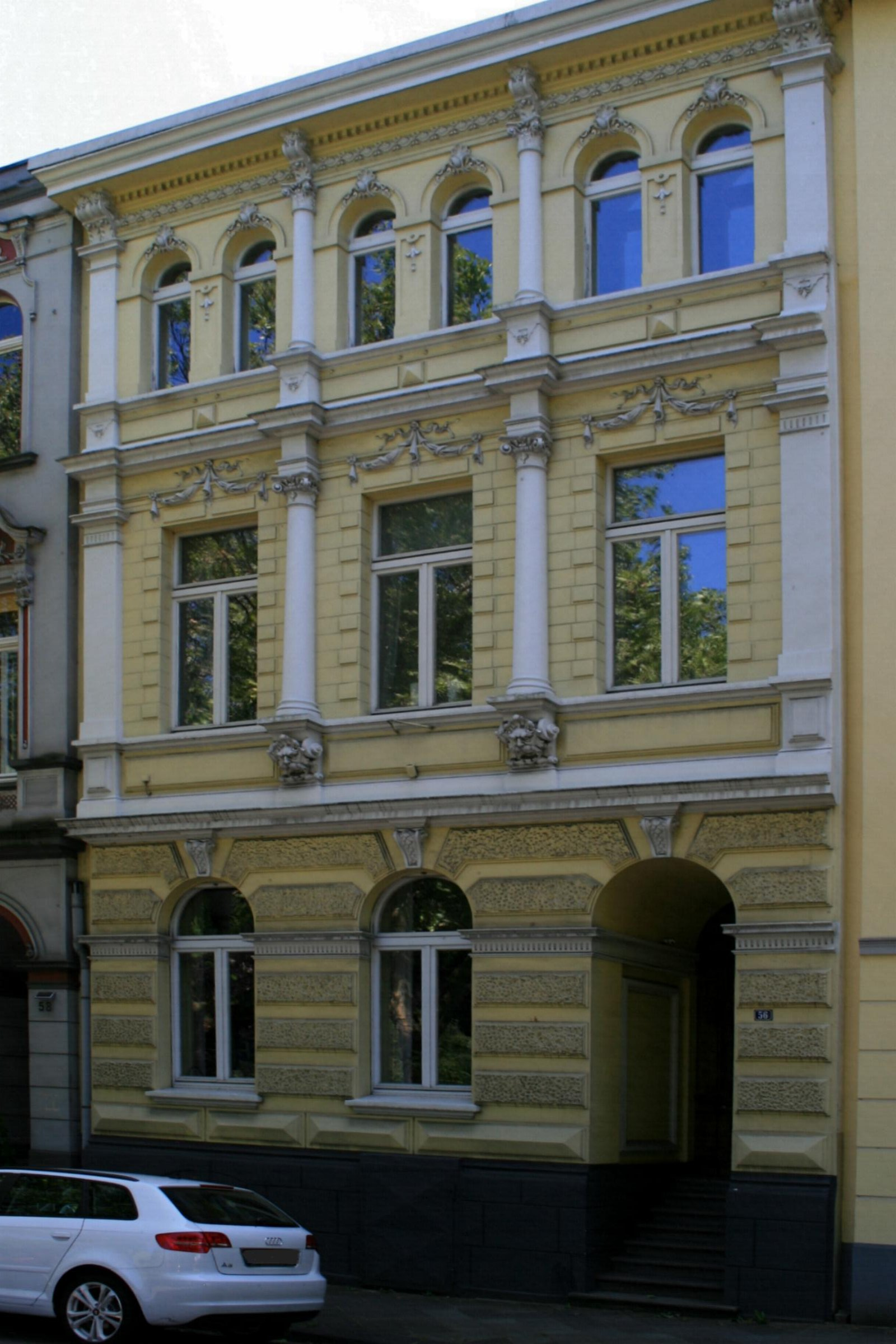 Cultural heritage monument No. H 096 in Mönchengladbach